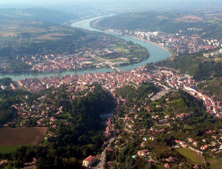 Cropped out airplane from